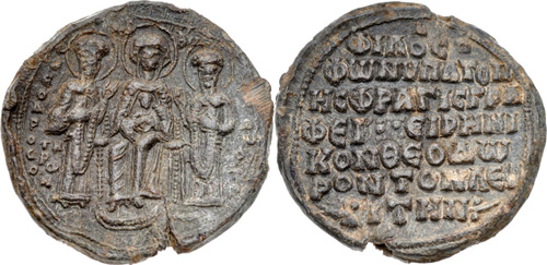 Theodoros II Eirenikos, the Levite. Hypatos philosophon, early 13th century. PB Seal (38mm, 33.03 g, 12h). The Theotokos (Virgin Mary), holding the Infant, enthroned facing; to left, St. Theodoros Teron standing facing; to right, St. Theodoros Stratelates standing facing / + ΦIΛOCO/ΦωN VΠATON/H CΦPAΓIC ΓPA/ΦЄI • • ЄIPHNI/KON ΘЄOΔω/PON TON ΛЄV/ITHN in eight lines across field; floral designs flanking ITHN. BLS -; DOBS -; DO 55.1. 4065; Athens, Stamoules 116; Laurent, Corpus II no. 1180; Šandrovskaja - Seibt p. 97, n. 2 . Good VF, scuff on obverse.